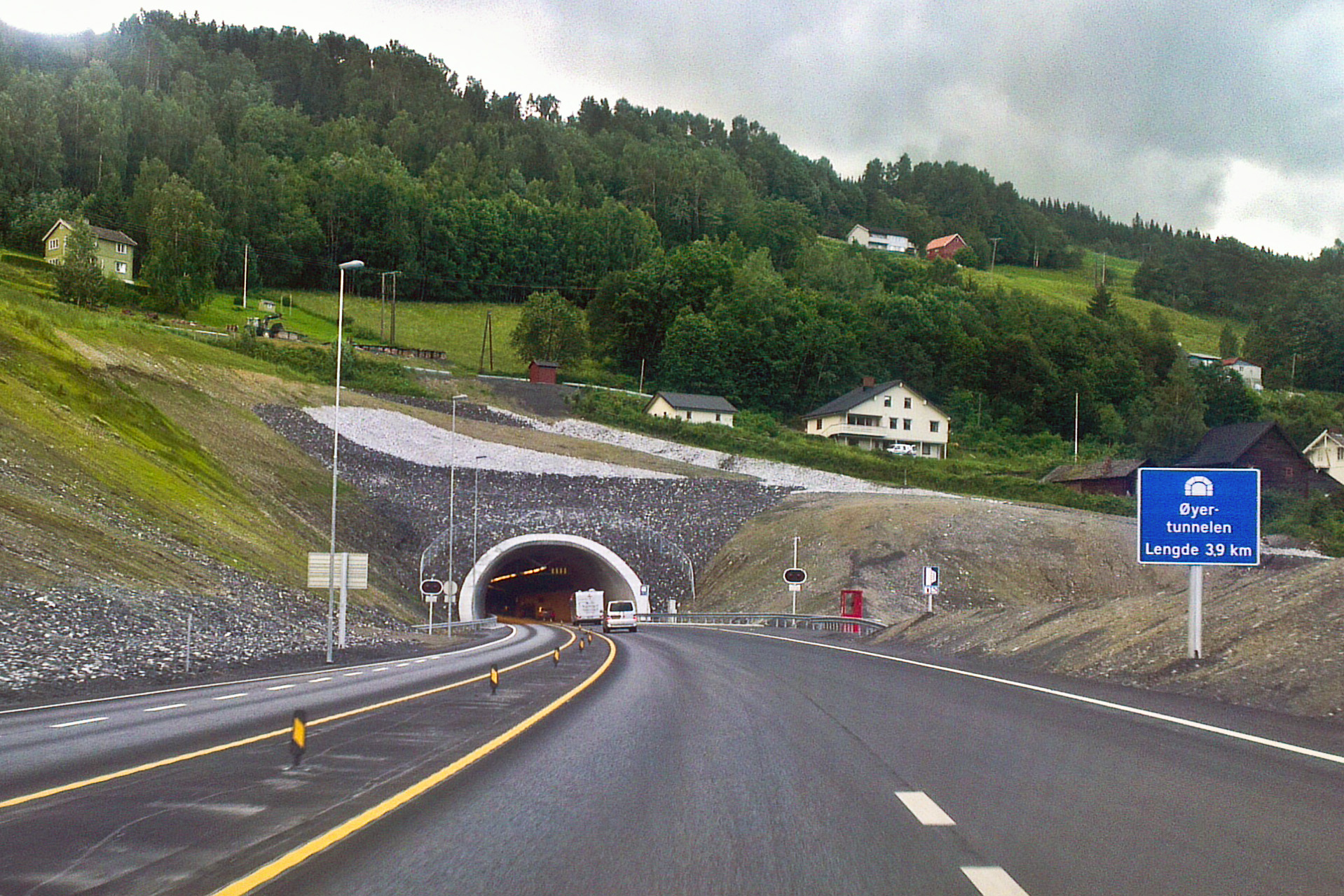 The Øyer tunnel, on European Route 6 (E6) in Øyer, Oppland, Norway.